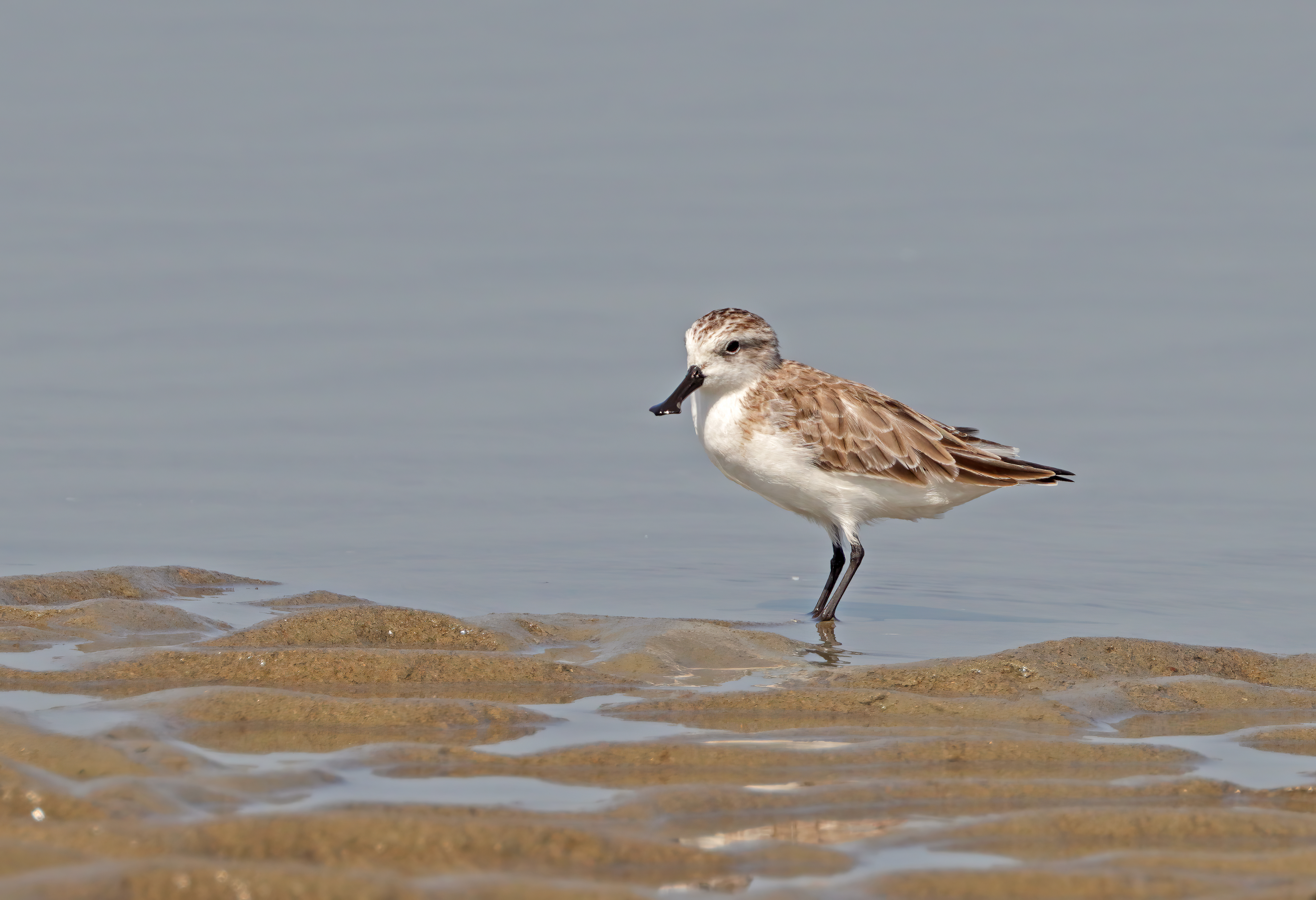 The spoon-billed sandpiper is a small wader which breeds in north-eastern Russia and winters in Southeast Asia.